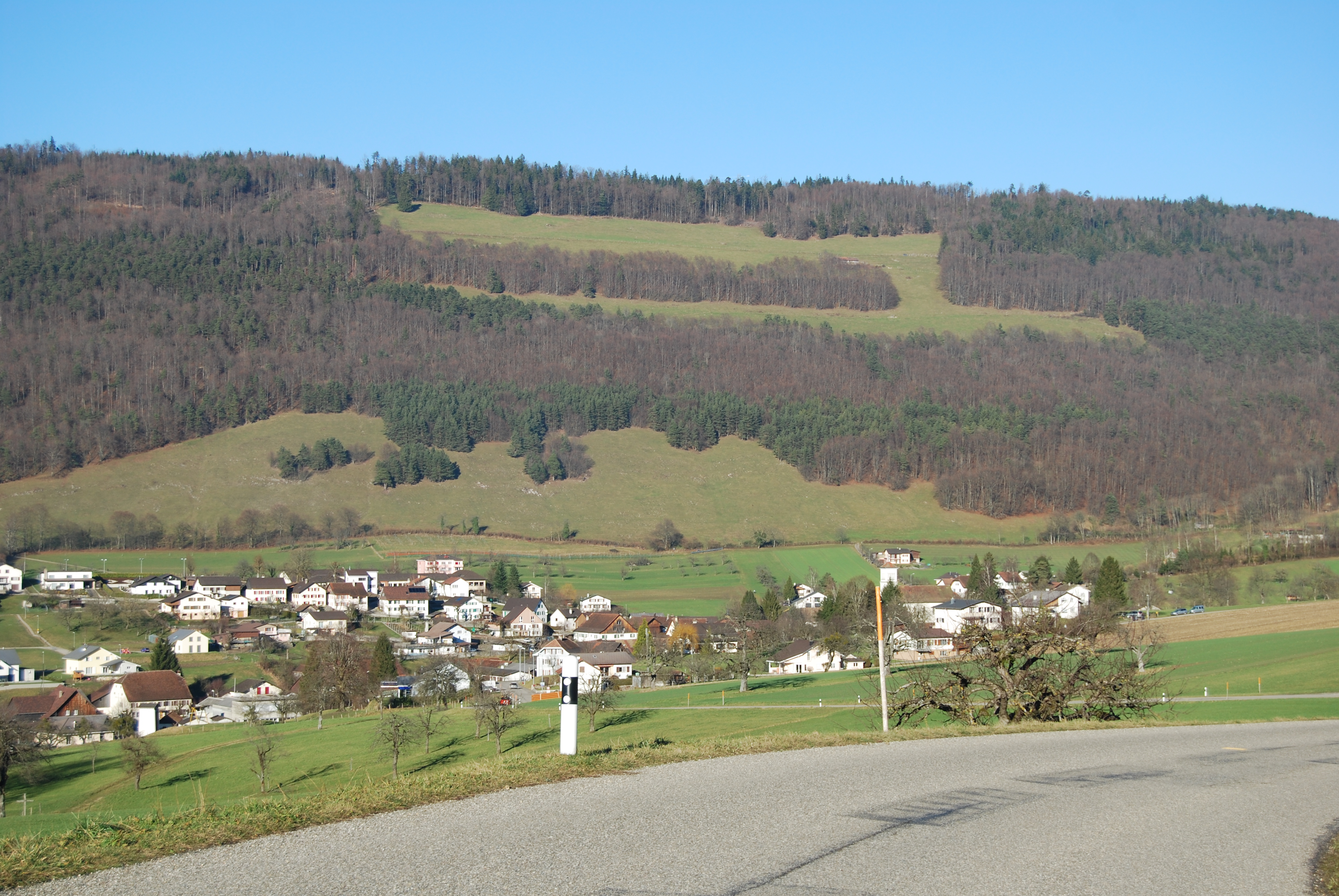 Montsevelier, canton of Jura, SwitzerlandEsperanto: Montsevelier, Kantono Ĵuraso, Svislando